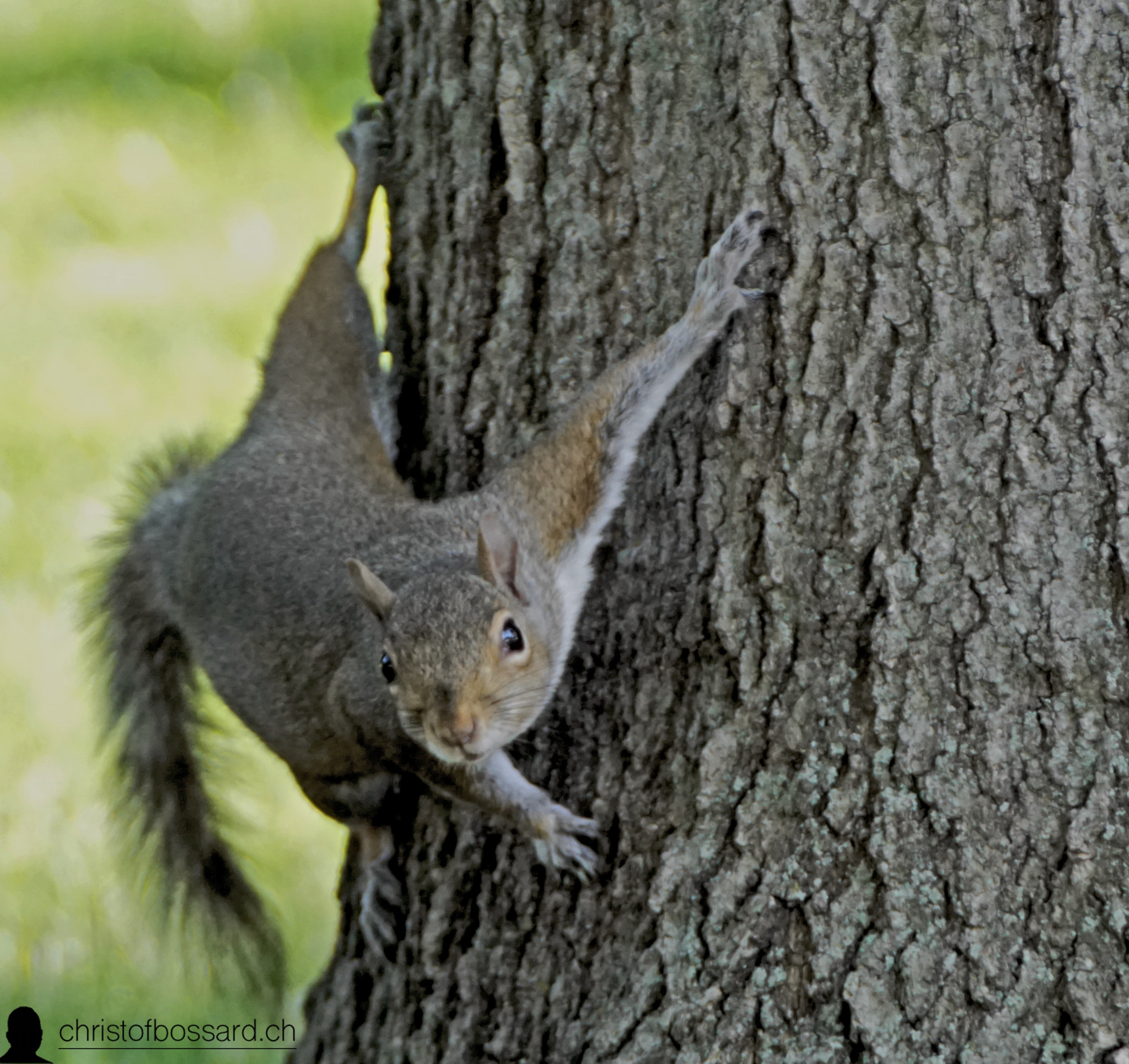 500px provided description: Eichhörnchen